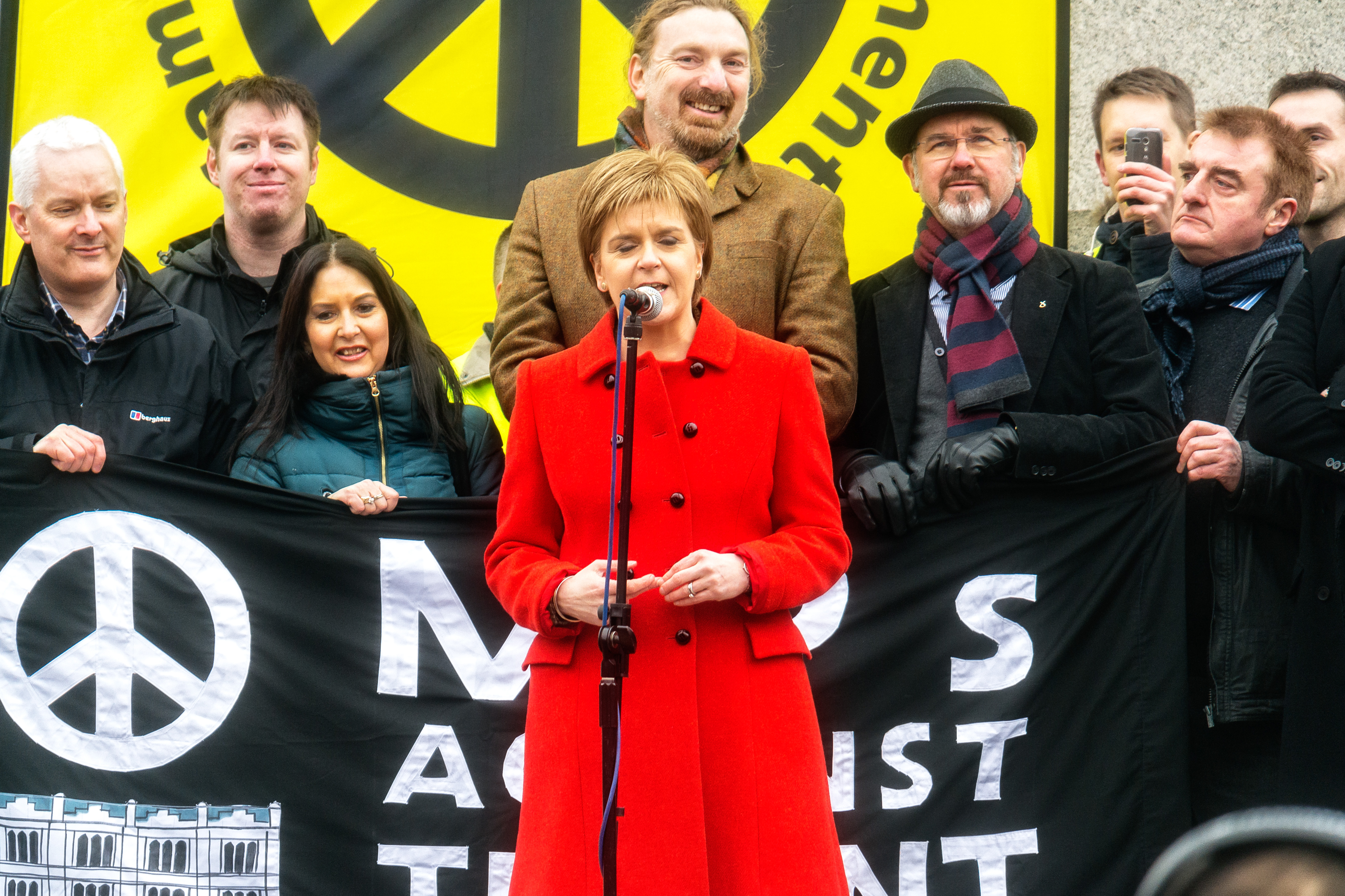 Scotland's First Minister Nicola Sturgeon at the #StopTrident rally at Trafalgar Square on Saturday 27th February 2016.